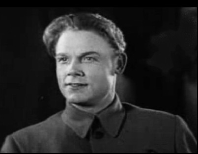 Sergei Stolyarov actor USSR